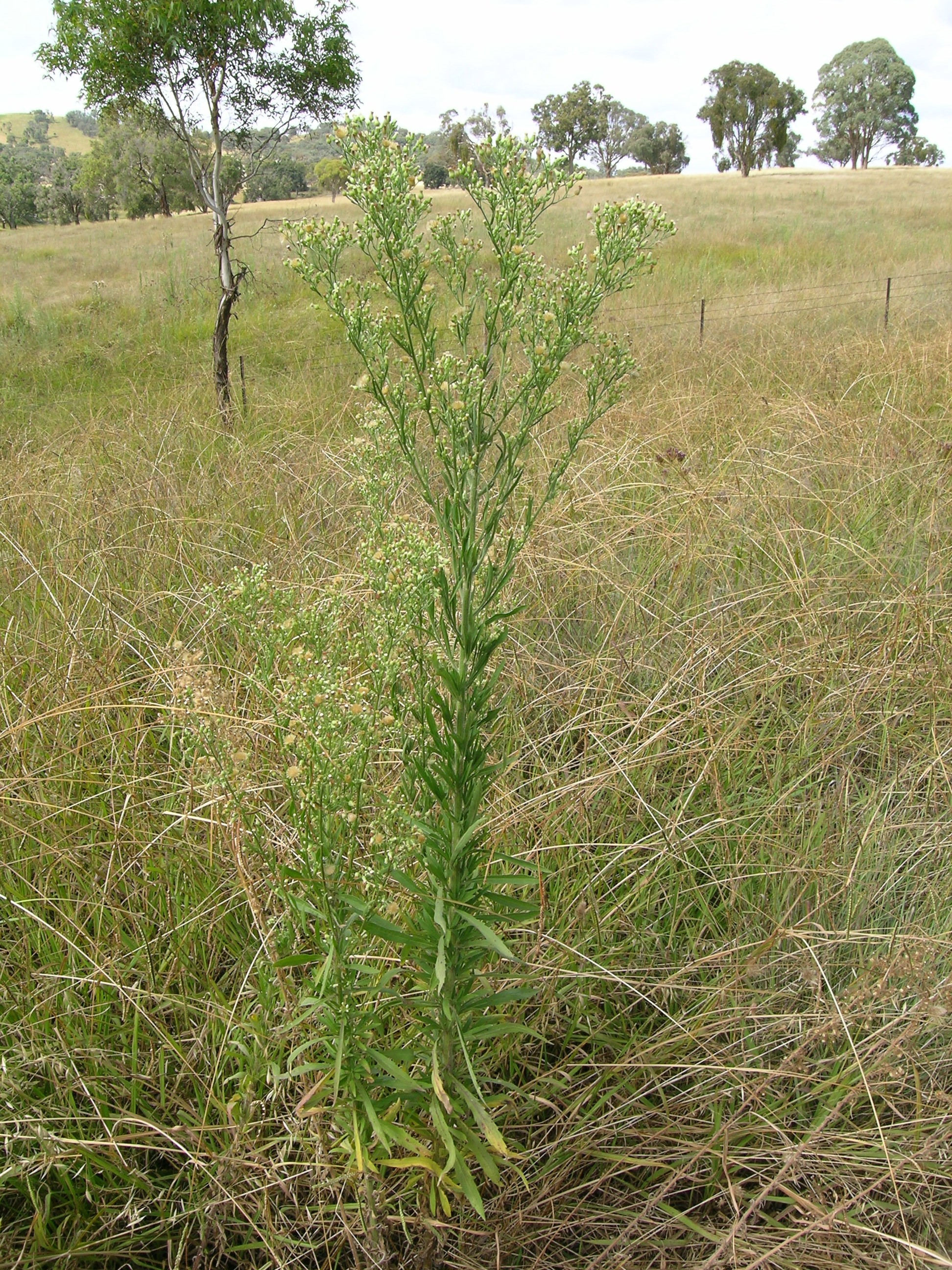 Introduced, warm-season, annual, erect, yellowish green herb. Stems are covered in long spreading hairs and grow to 2 m tall. Leaves are bristly and form a rosette when young. Lower leaves are toothed and upper leaves are entire. Flowerheads have numerous creamy heads (4-6 mm long) that have pale and densely hairy bracts. Flowering is mostly from summer to late autumn. A native of North America, it is a common weed of disturbed pastures, roadsides, cultivation and wasteland. A minor weed in pasture situations; it is an indicator of disturbance, low ground cover and/or weak pastures. Primary control is by maintenance of good ground cover, especially from autumn to late spring. Can be hand-pulled, but plants need to be removed to prevent seed drop. Slashing at the beginning of flower emergence will reduce seed set. If it needs to be sprayed, apply registered herbicides at the seedling to early rosette stage.